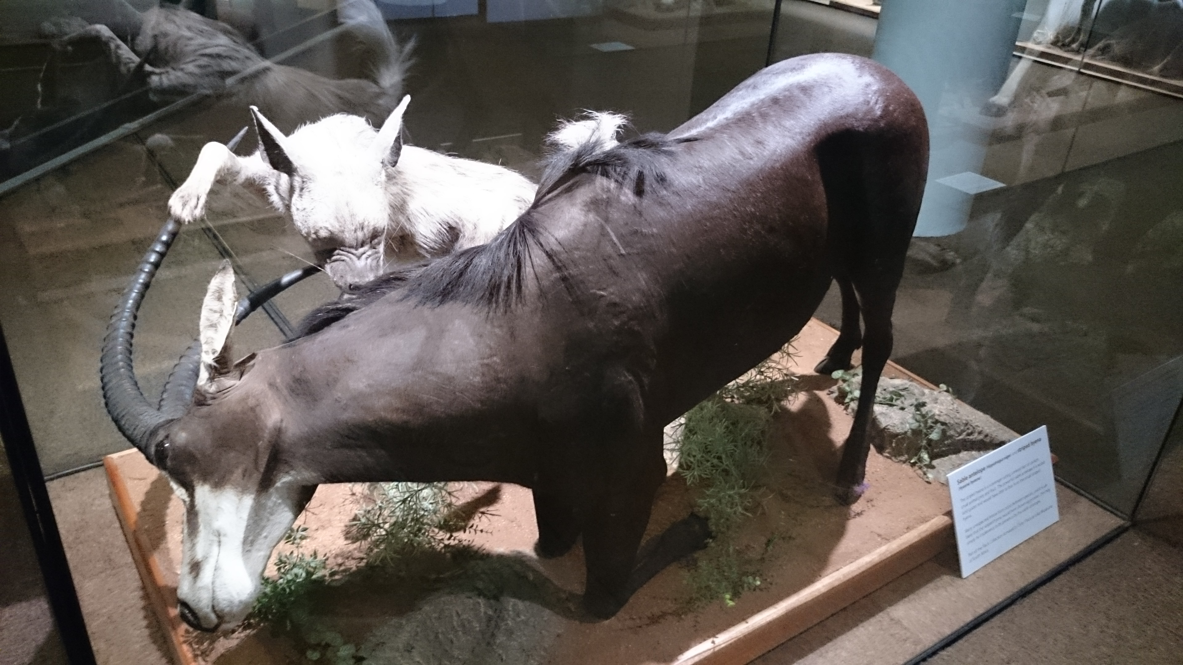 Sable antelope (Hippotragus niger) and striped hyena (Hyaena hyaena). The striped hyena is a scavenger eating mixed diet of carrion, small animal prey and fruit. The powerful sable antelope is a wood-land grazer and would have little to fear from the small striped hyena. Many unexpected interactions occur between species, and it is unlikely that the striped hyena would have shown aggression, this may simply be intolerance to its presence by the sable antelope. Part of the Flack collection donated by Peter Flack to Iziko Museums of South Africa